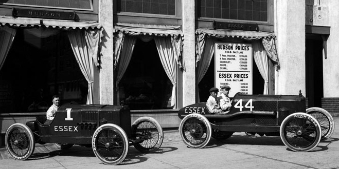 Essex racecars on display in Salt Lake City, 1920 Commercial photo for promotion and advertisement, published 1920.